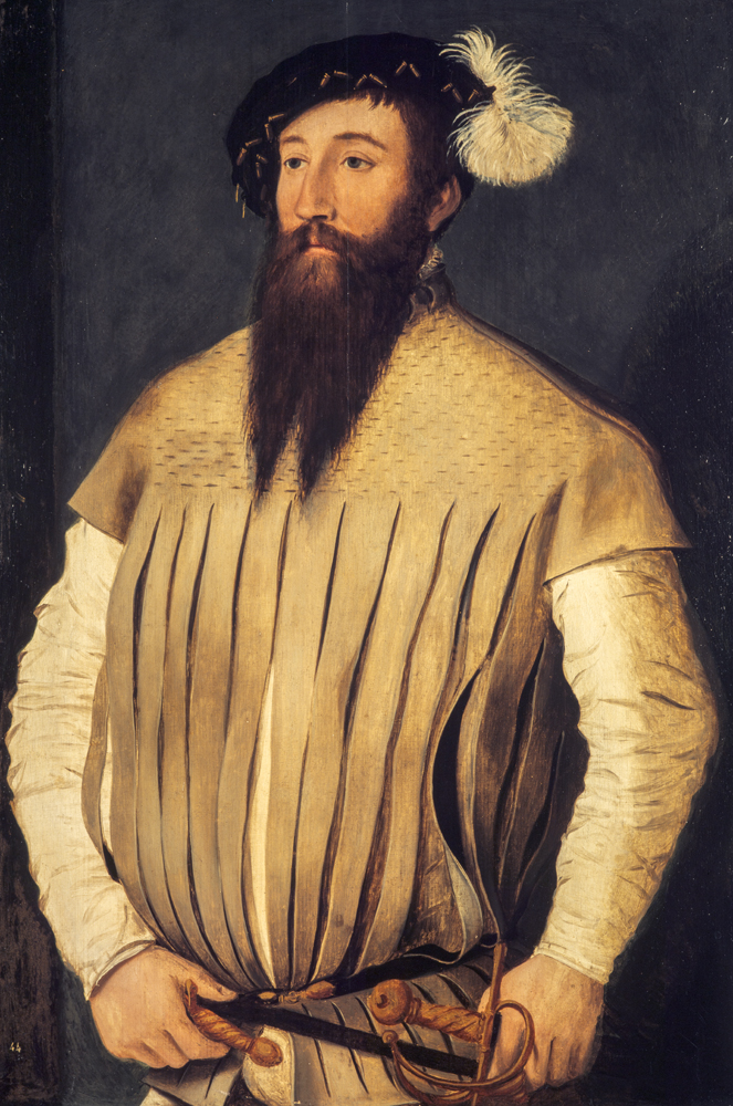 Portrait of Sir Peter Carew.